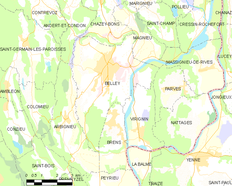 Map of French commune: Belley Map commune FR insee code 01034.png